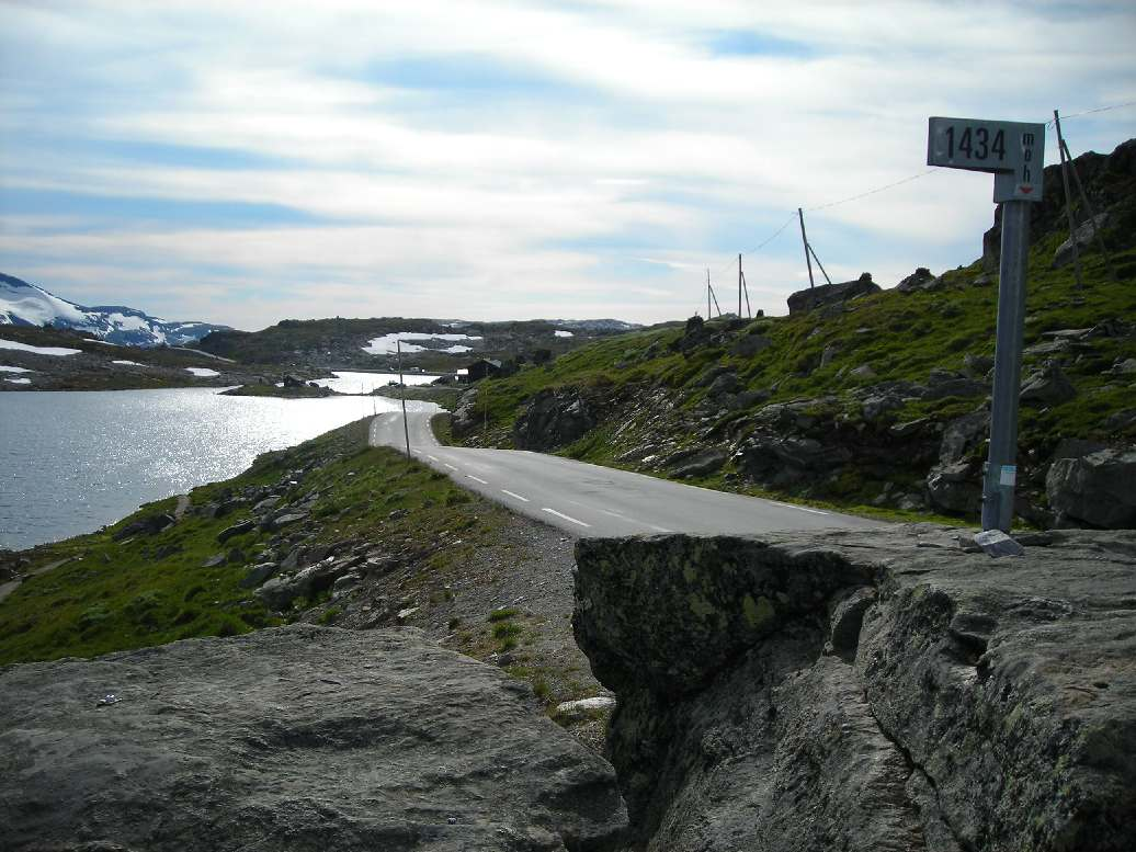 Road 55 at Fantesteinen. The highest national road in Norway, at 1434 m above sea